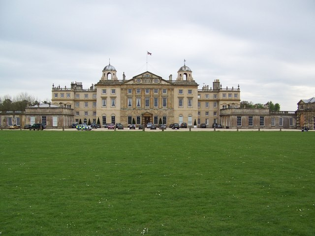 Badminton House Badminton House is the family home of the 11th Duke of Beaufort. He is President of the Horse Trials and was himself a successful rider in the sport, being placed second here in 1959.